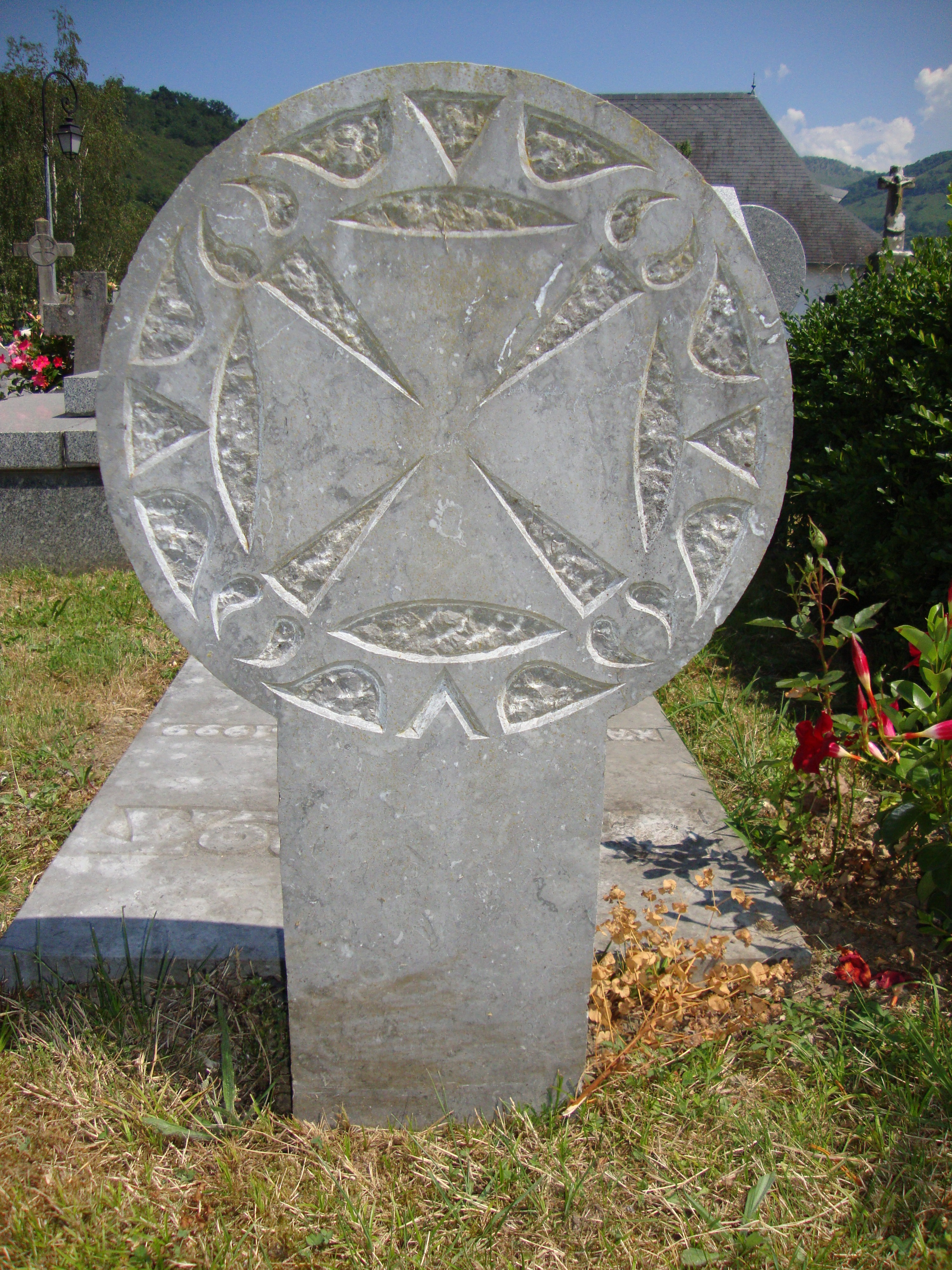 Abense-de-Haut (Alos-Sibas-Abense, Pyr-Atl,Fr) vieux stèle